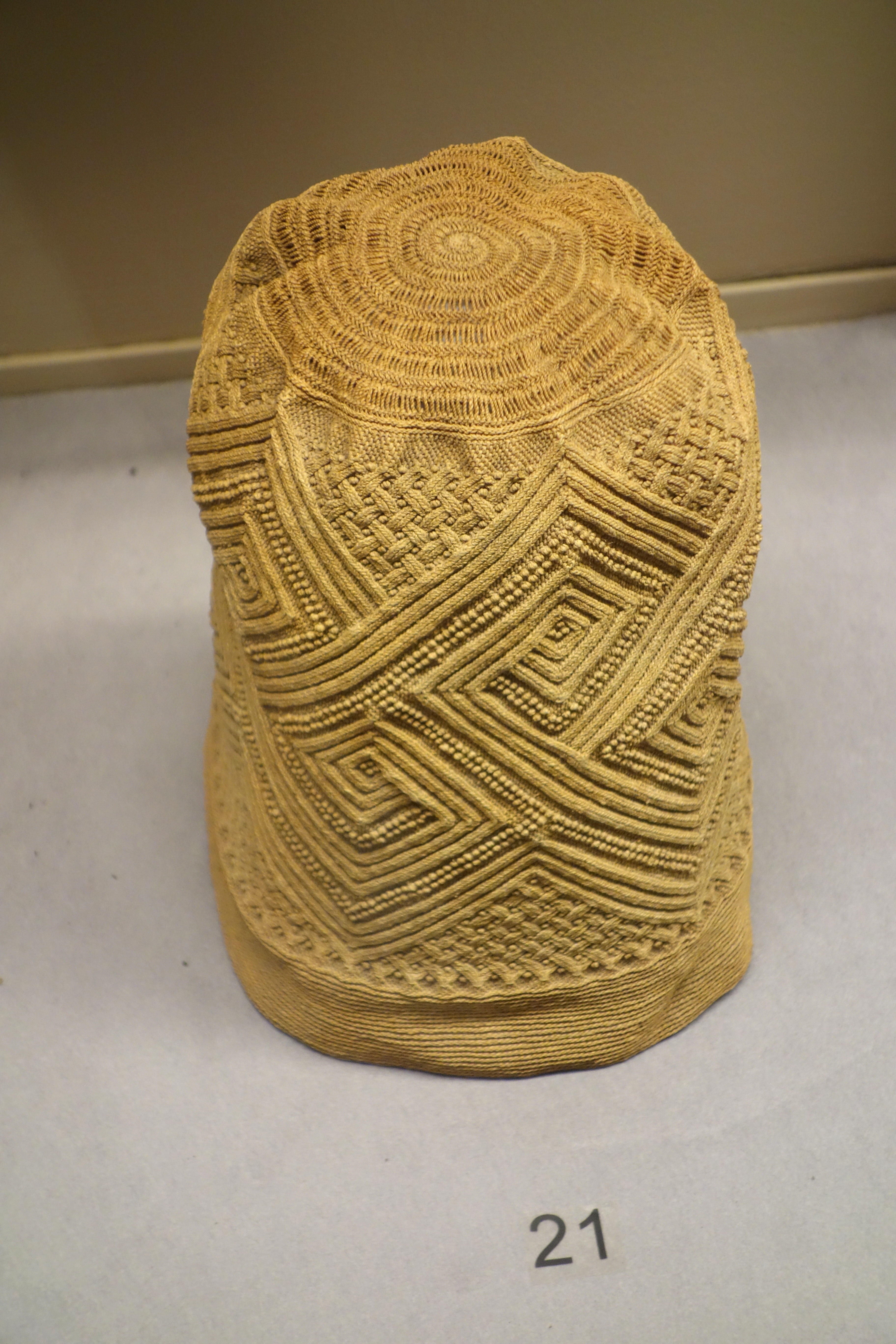 Exhibit in the Royal Museum for Central Africa, Tervuren, Belgium. This object is old enough so that it is in the public domain.